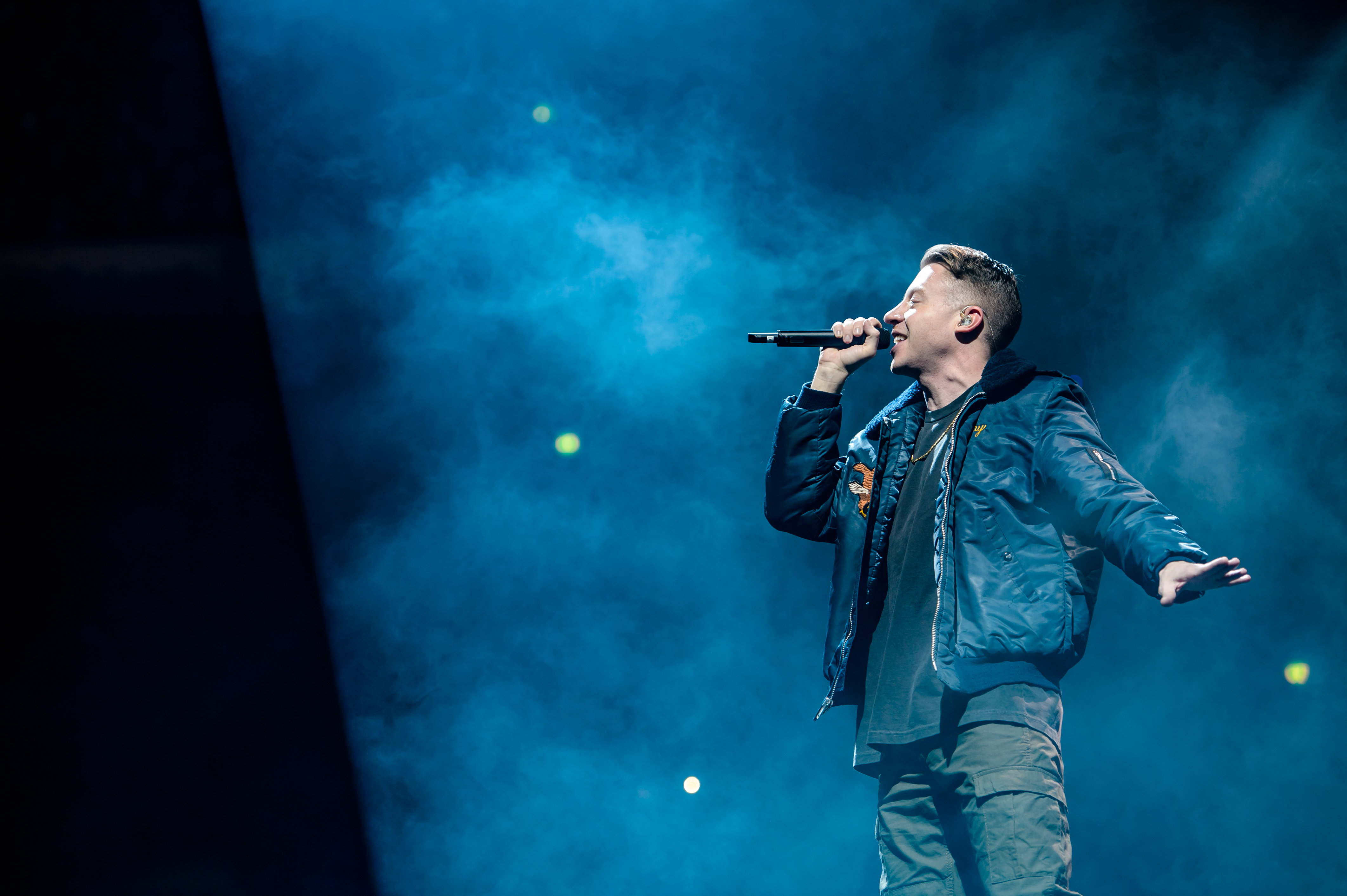 Macklemore & Ryan Lewis - This Unruly Mess I've Made Tour; Westfalenhallen Dortmund